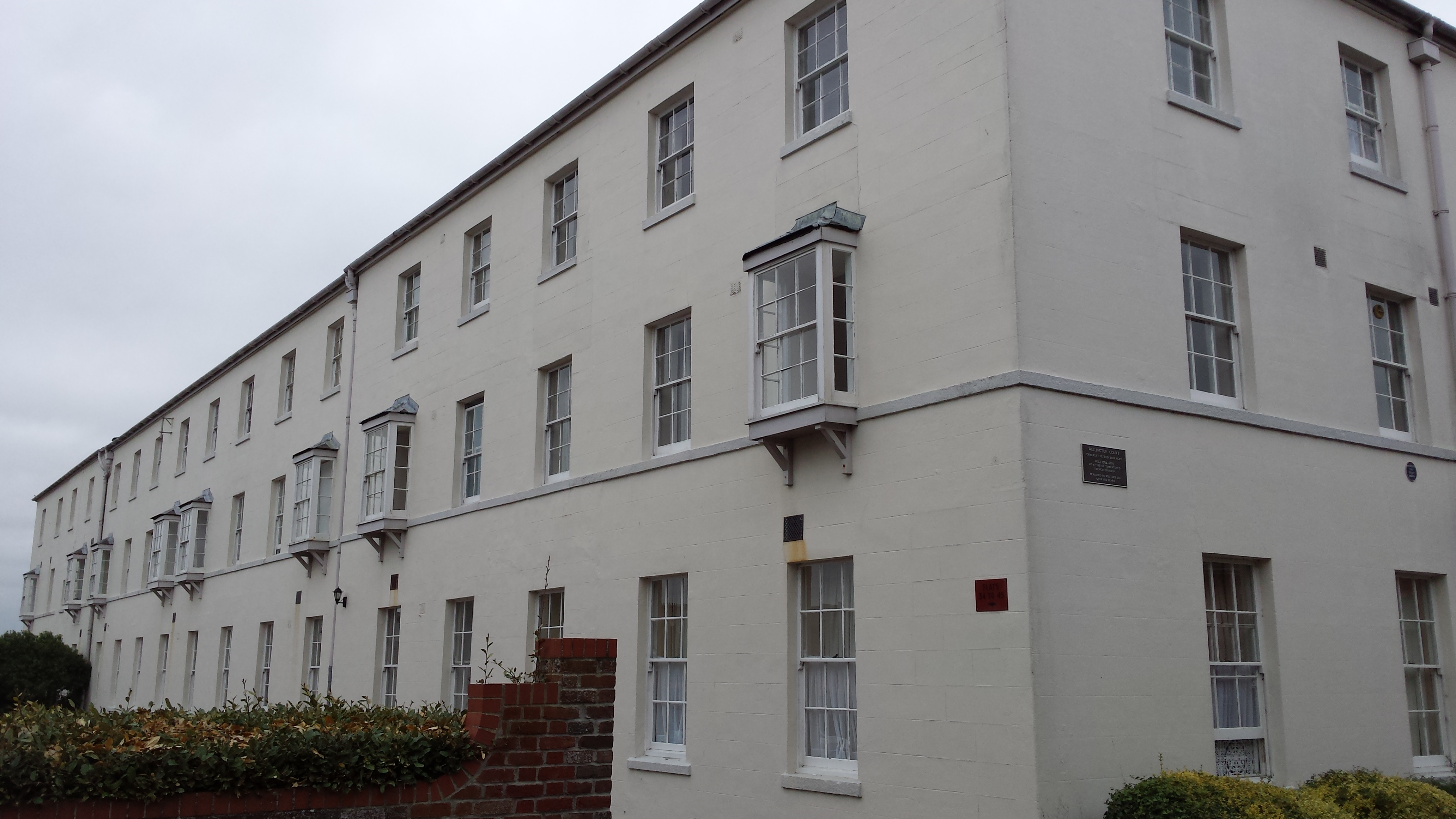 Wellington Court Wikidata has entry Q26684369 with data related to this item.